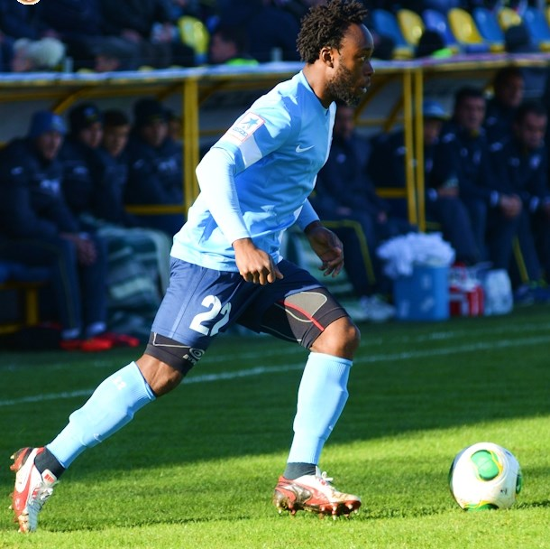 Réginal Goreux